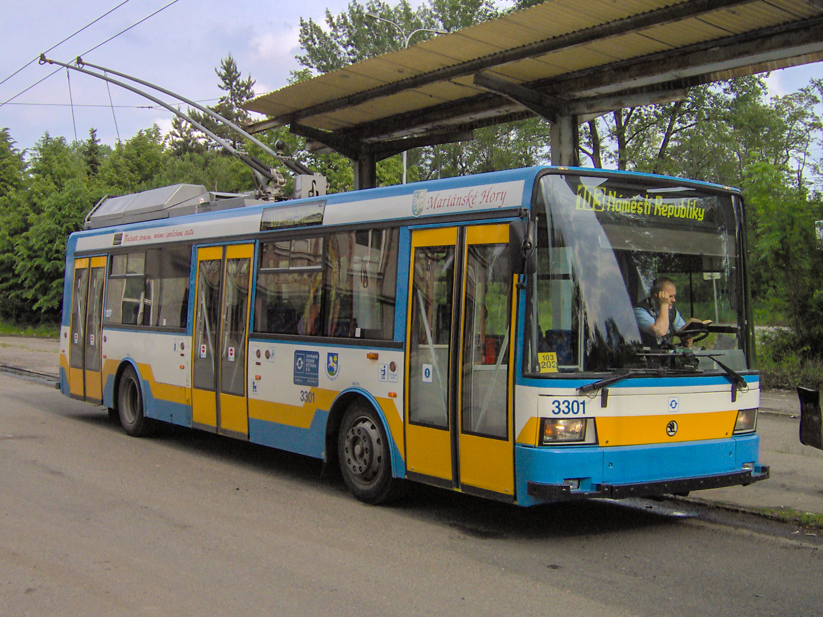 Škoda 21Tr trolleybus in Ostrava